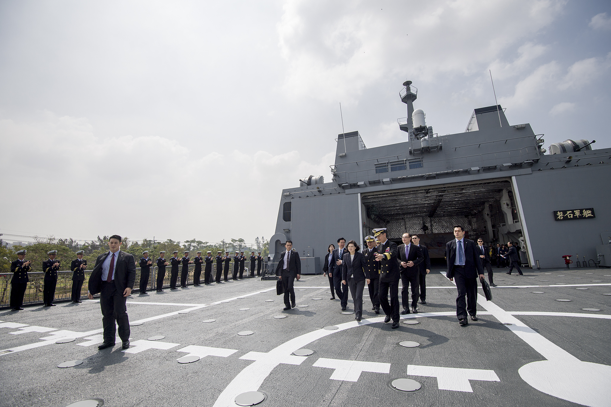 授權方式及範圍：中華民國總統府│政府網站資料開放宣告 Authorization Method & Scope: Office of the President, Republic of China (Taiwan) | Government Website Open Information Announcement